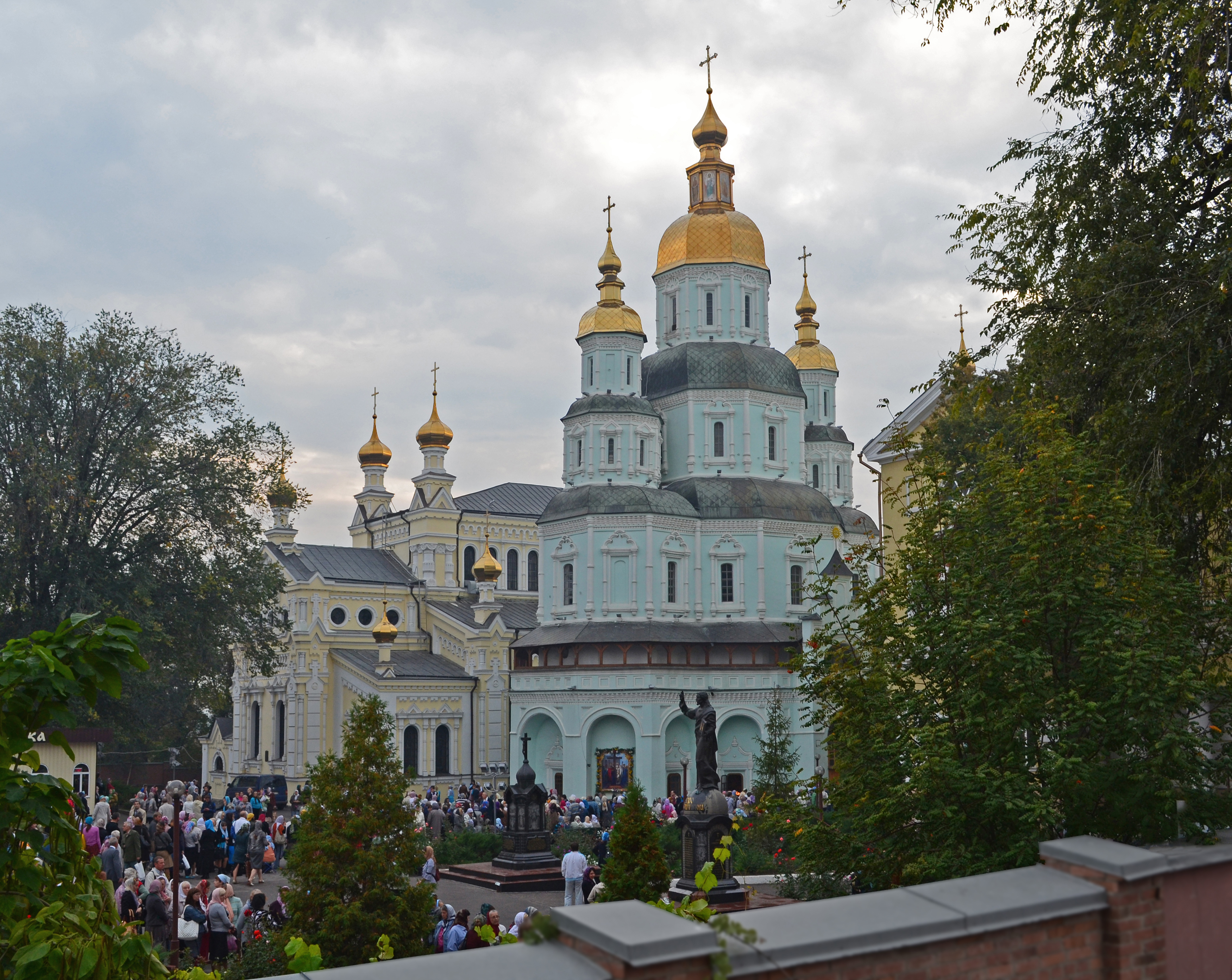 Pokrovsky monastery, Kharkiv, Ukraine